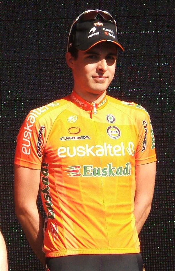 Named cyclist at the en:2009 Tour Down Under team presentation